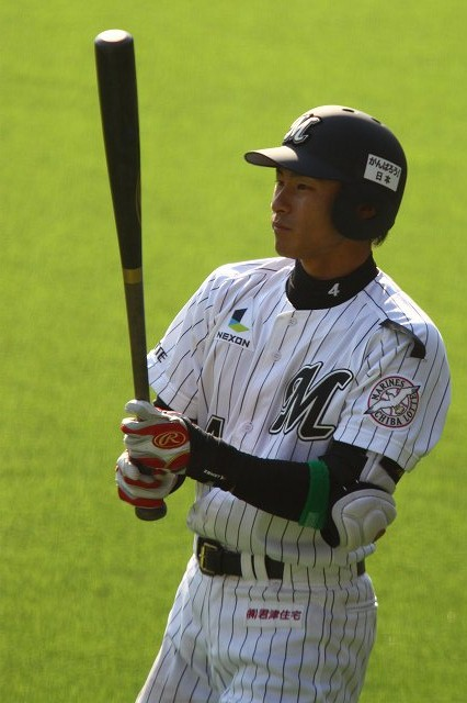 Takashi Ogino, infielder of the Chiba Lotte Marines.